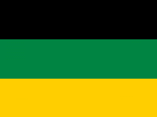 The flag of the ANC (without the symbol of ANC incorporated on it), and also the battle flag of the Umkhonto we Sizwe.